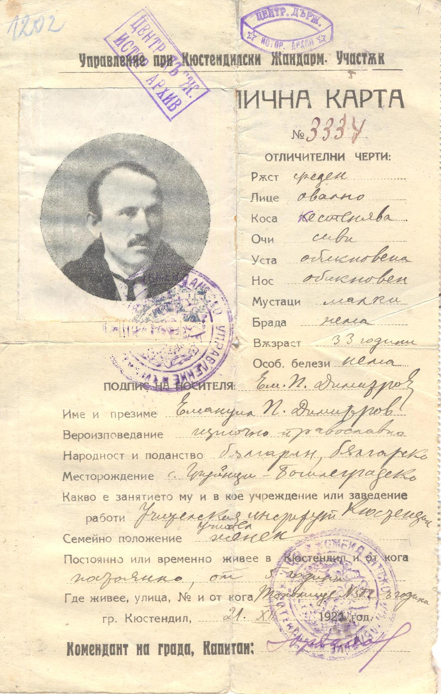 Identity document Emanuil Popdimitrov, 21.12.1927.